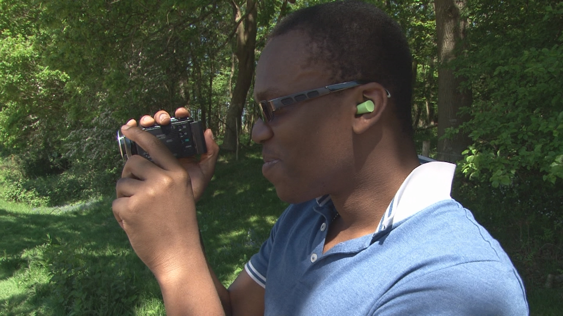 English YouTube personality KSIOlajidebt in 2012.